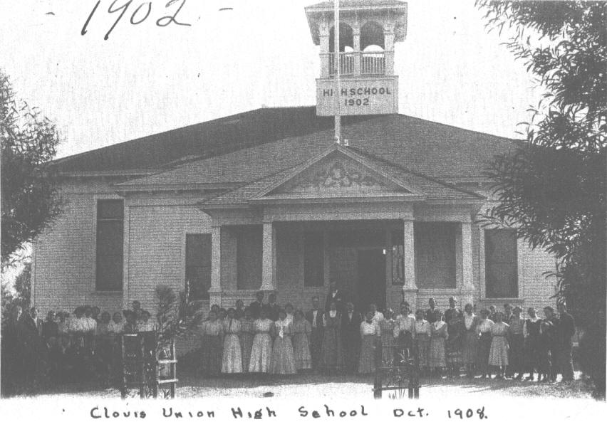 Photograph of Clovis Union High School in October 1908 in Clovis, California, showing students and teachers. ref Clovis High School